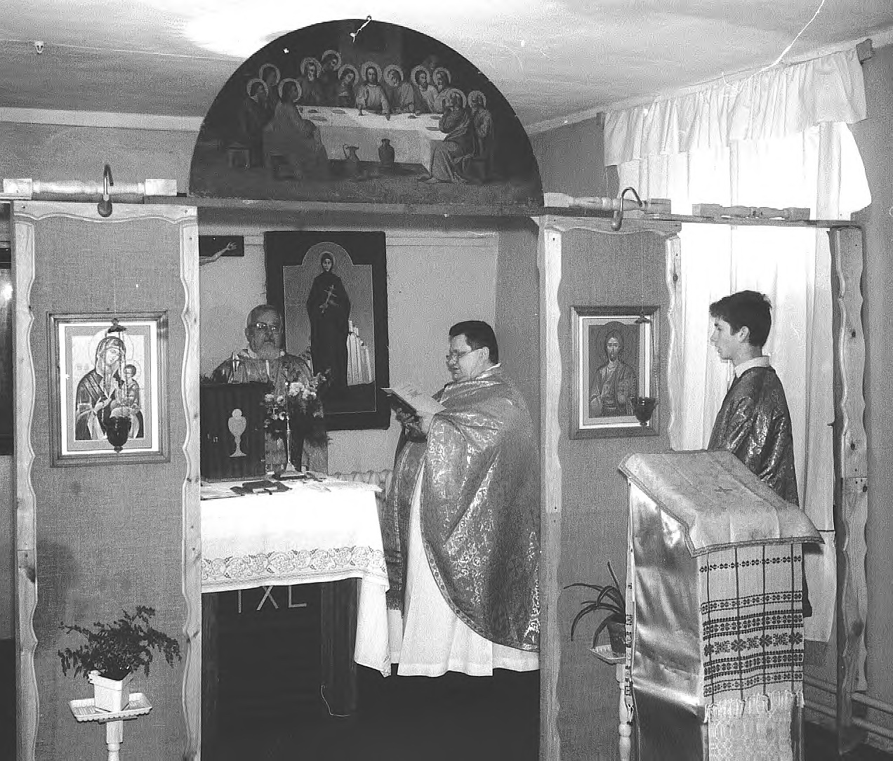 Alaksandar Nadsan and Jan Matusevič